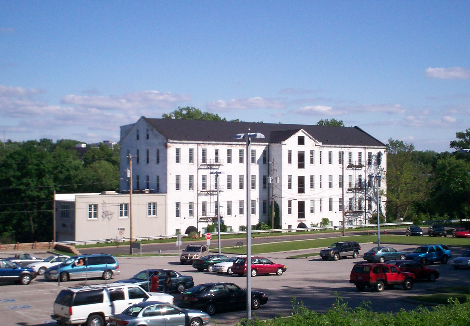 View of the building known locally as the "Silk Mill" and the "Alpaca Mill" in Kent, Ohio as seen from the parking lot for the Kent Free Library. Today the building is privately owned and holds several apartments. Its foundation was first laid out in the late 1830s for a silk mill, but the building was never completed beyond excavation before the silk industry failed in Kent. It was built in the early 1850s by Marvin Kent to house a cotton mill, but that venture also failed before the building was completed. Eventually it was used as an alpaca mill and later as a worsted mill until the 1880s. Today it forms part of the Kent Industrial District, a listing on the National Register of Historic Places.